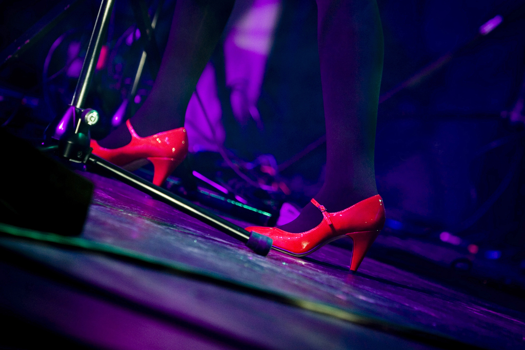 Rita RedShoes no Coliseu de Lisboa, 12 de Abril 2008. Personality rights warning Although this work is freely licensed or in the public domain, the person(s) shown may have rights that legally restrict certain re-uses unless those depicted consent to such uses. In these cases, a model release or other evidence of consent could protect you from infringement claims.